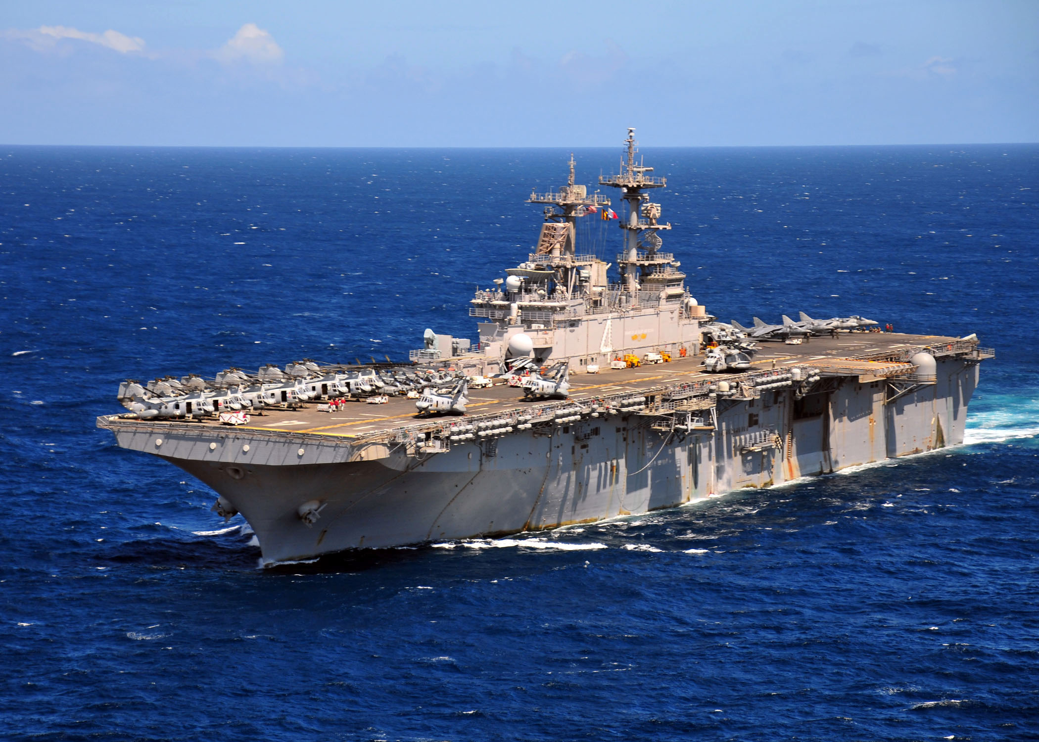 INDIAN OCEAN (Aug. 18, 2011) The amphibious assault ship USS Boxer (LHD 4) transits the Indian Ocean. Boxer is underway in the U.S. 7th Fleet area of responsibility during a western Pacific deployment. (U.S. Navy photo by Mass Communication Specialist 3rd Class Trevor Welsh/Released)